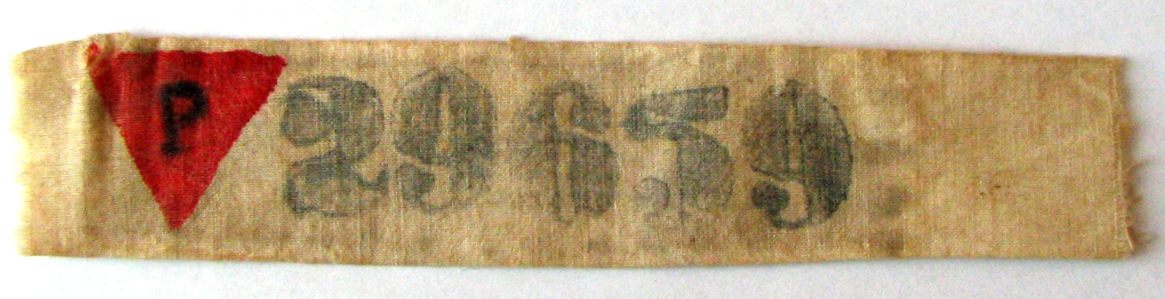 German Nazi concentration camp badge for Polish (non-Jewish) political prisoner in Stutthof. Numer obozowy w KL Stutthof 29659 - Lidia Główczewska, Polska.